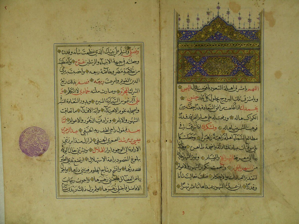 Manuscript of "Bara'at al-istihlāl fima yata'alaq bi-al-sahra ramadan wa al-hilal" by Abd al-Rahman al-Murshidi